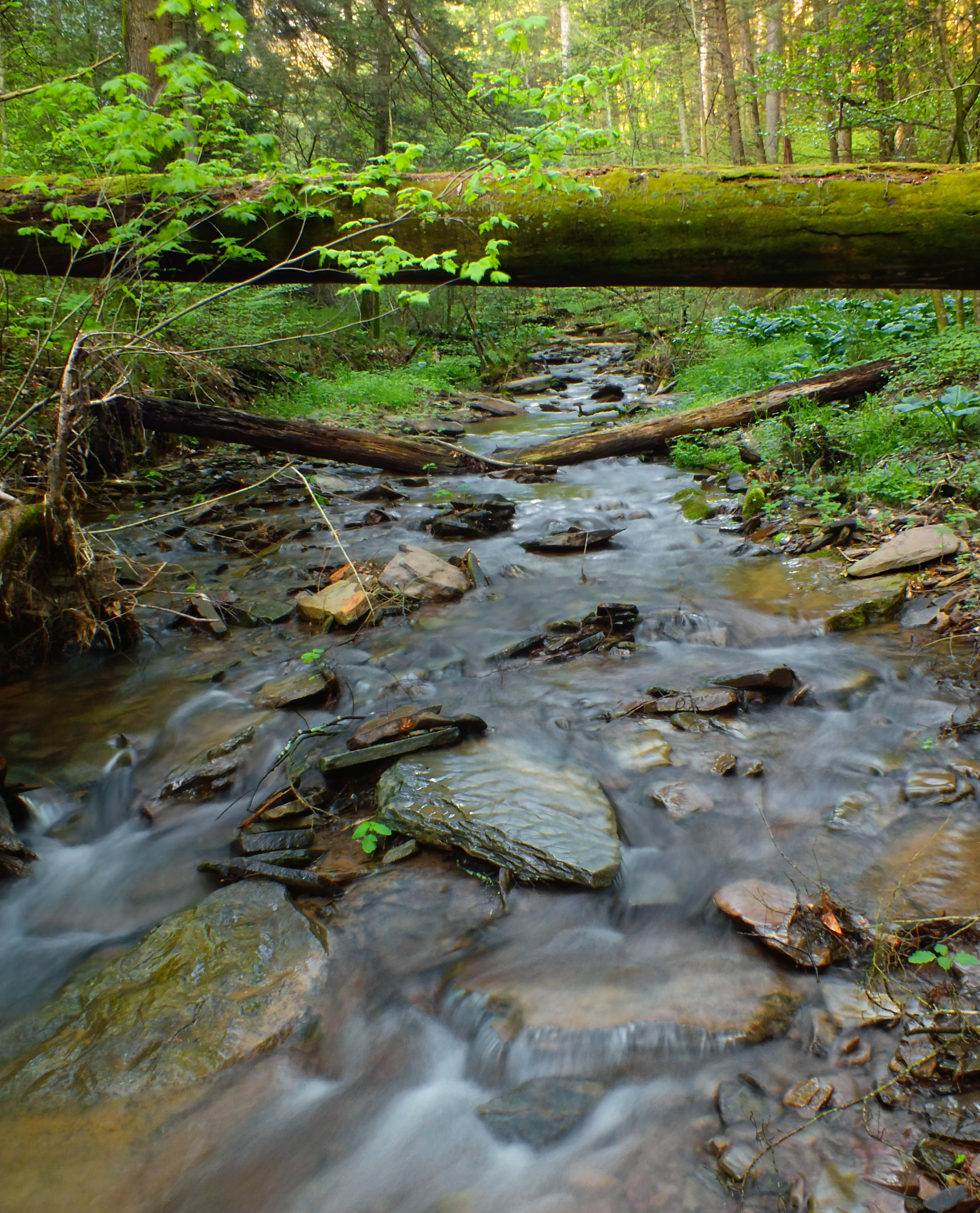 Weiser State Forest, Columbia County. The natural area protects a small tract of old-growth hemlocks, white pines, and northern hardwoods in a deep ravine. Along the bottom of the ravine is a small, unnamed stream that flows into the much larger Little Fishing Creek.